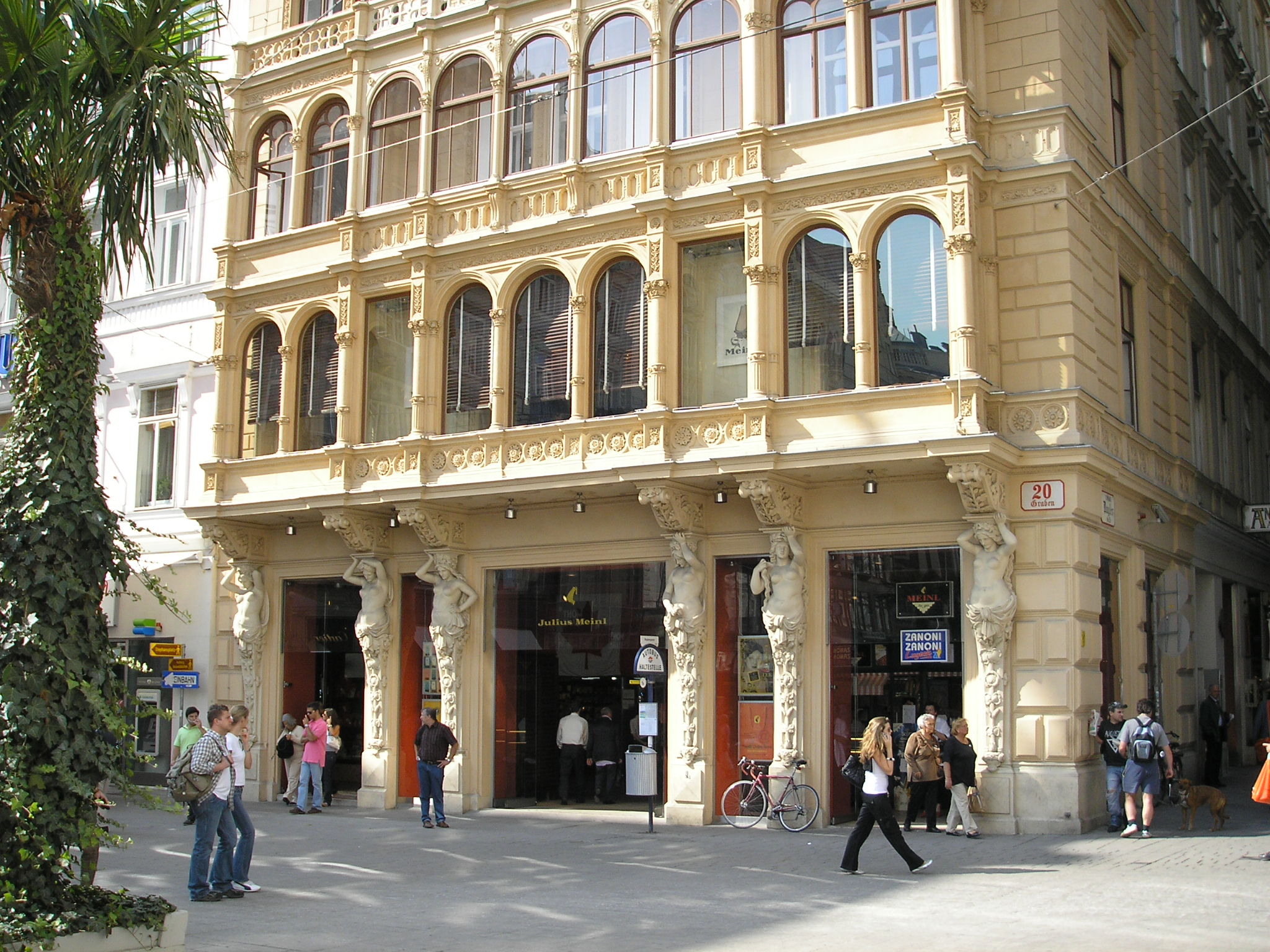 Image of the Meinl am Graben store at Graben in Vienna's first district Innere Stadt.